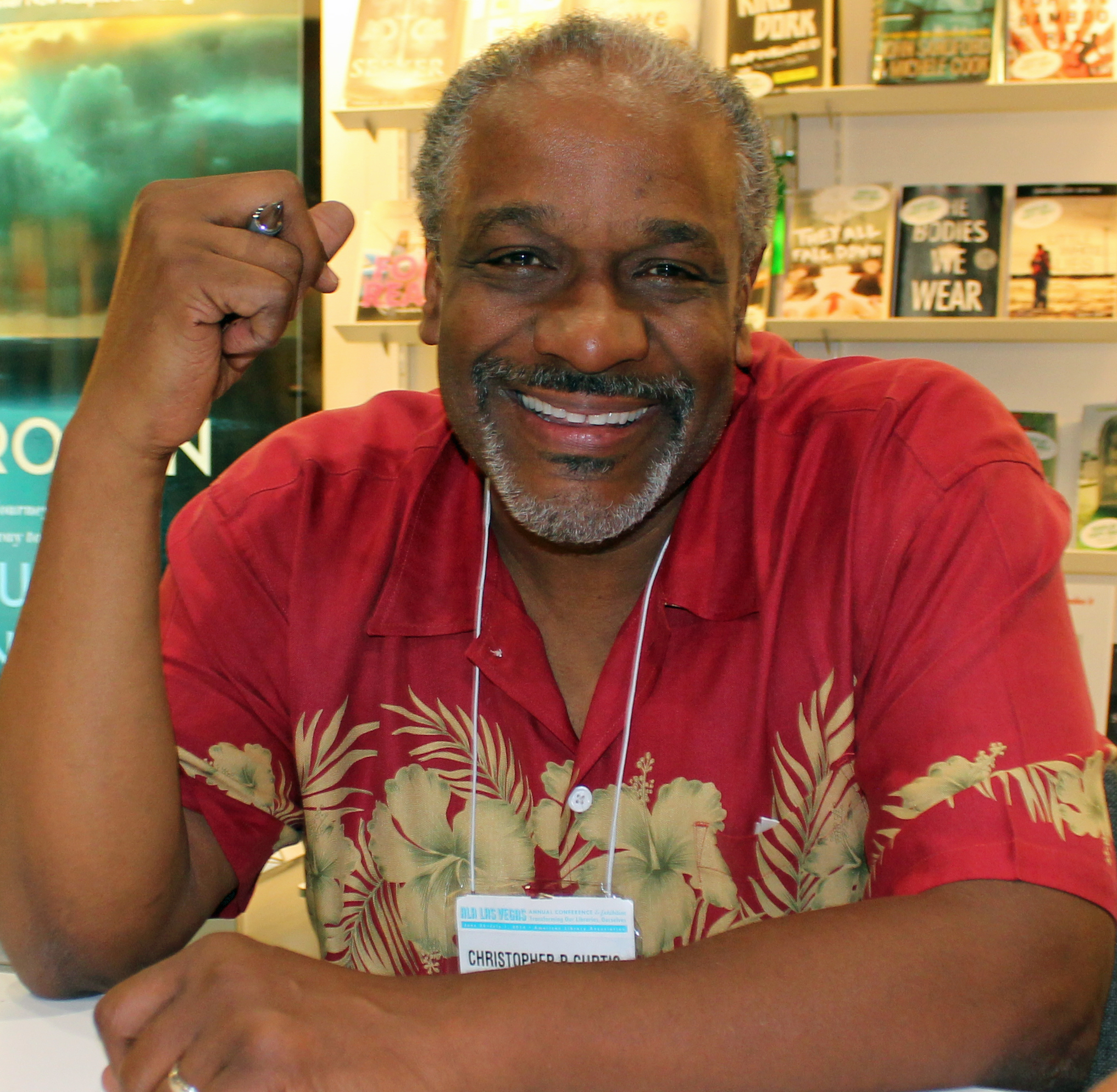 Christopher Paul Curtis is a children's literature author from the United States. He won the 2000 Newbery Medal for his book Bud, Not Buddy.